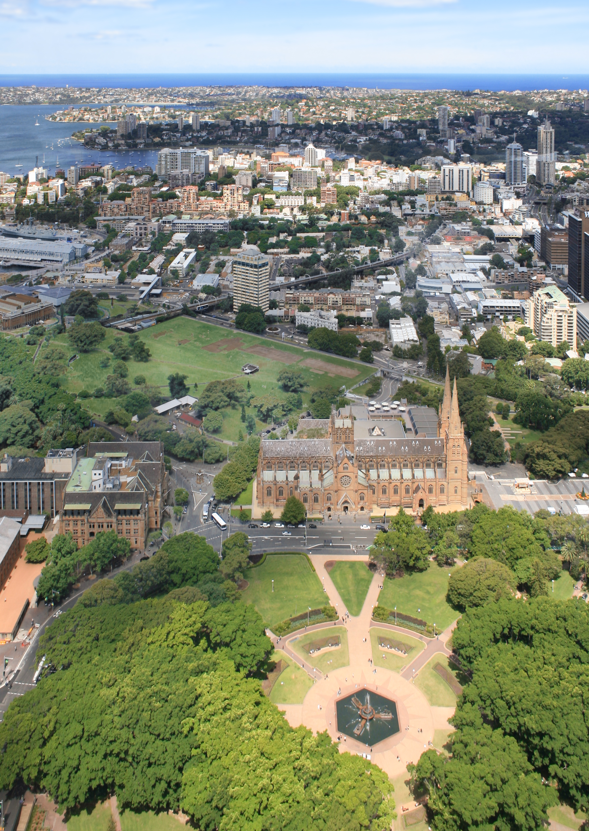 Central Business District, Sydney, Australia